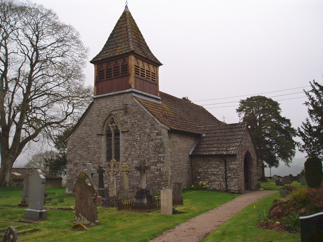 St Mary's Church, Talachddu The medieval church is at Talachddu, a short distance from the Hereford to Brecon road where is passes through Felinfach.